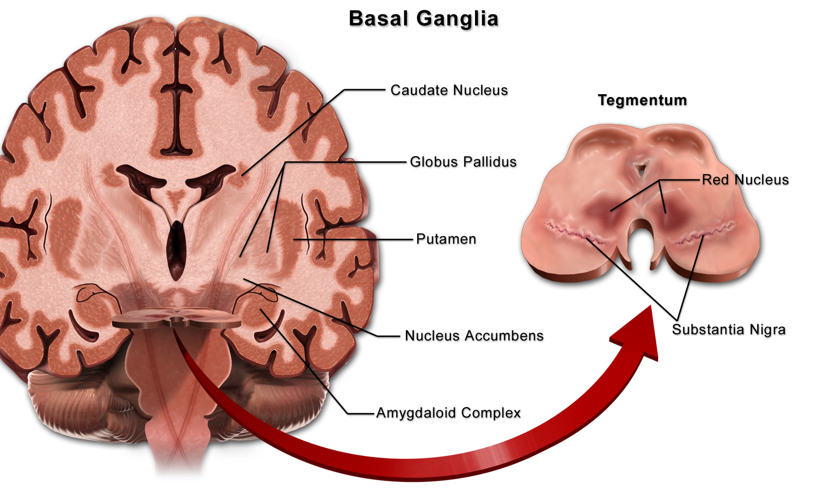 Basal Ganglia. See a related animation of this medical topic.